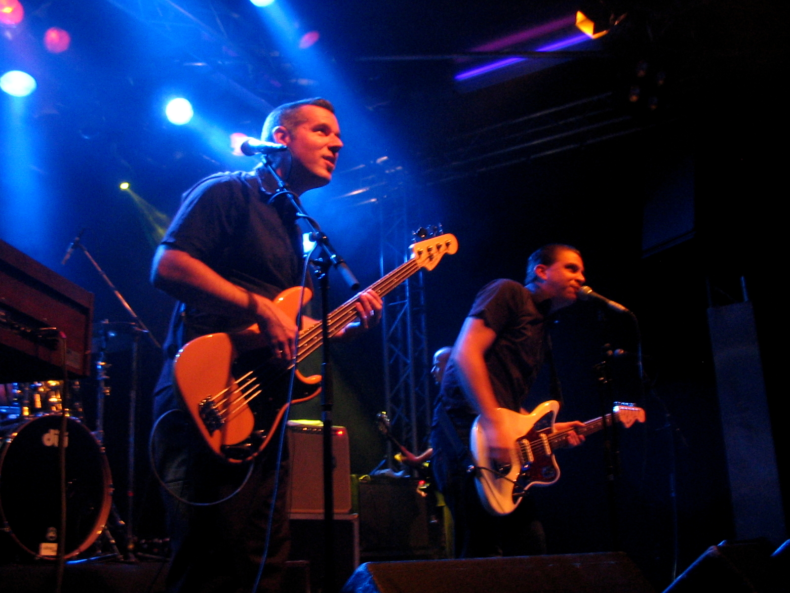 The Aggrolites live in Sweden